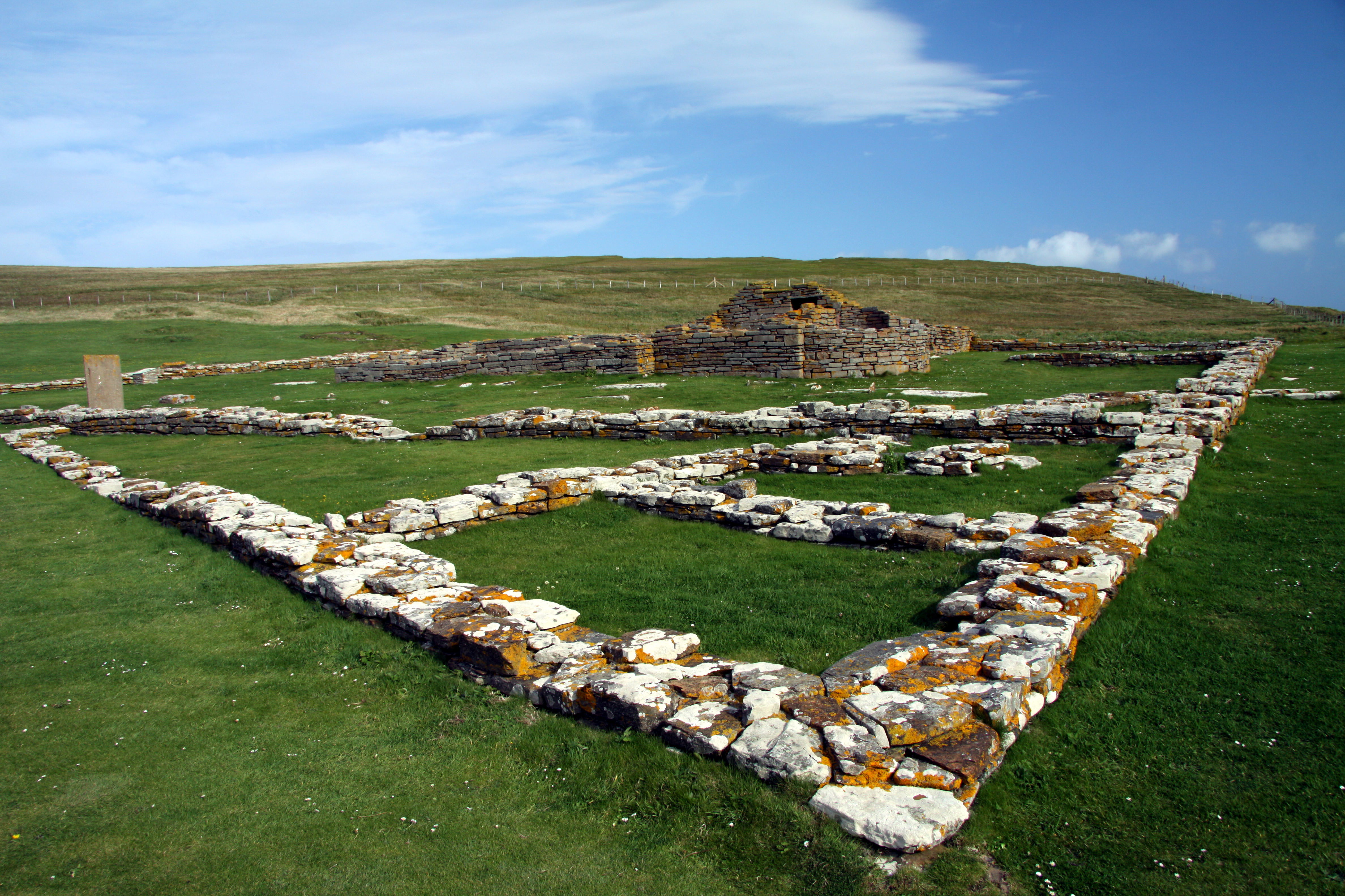 Ruins of village on the isle of Brough of Birsay, Orkney, Scotland